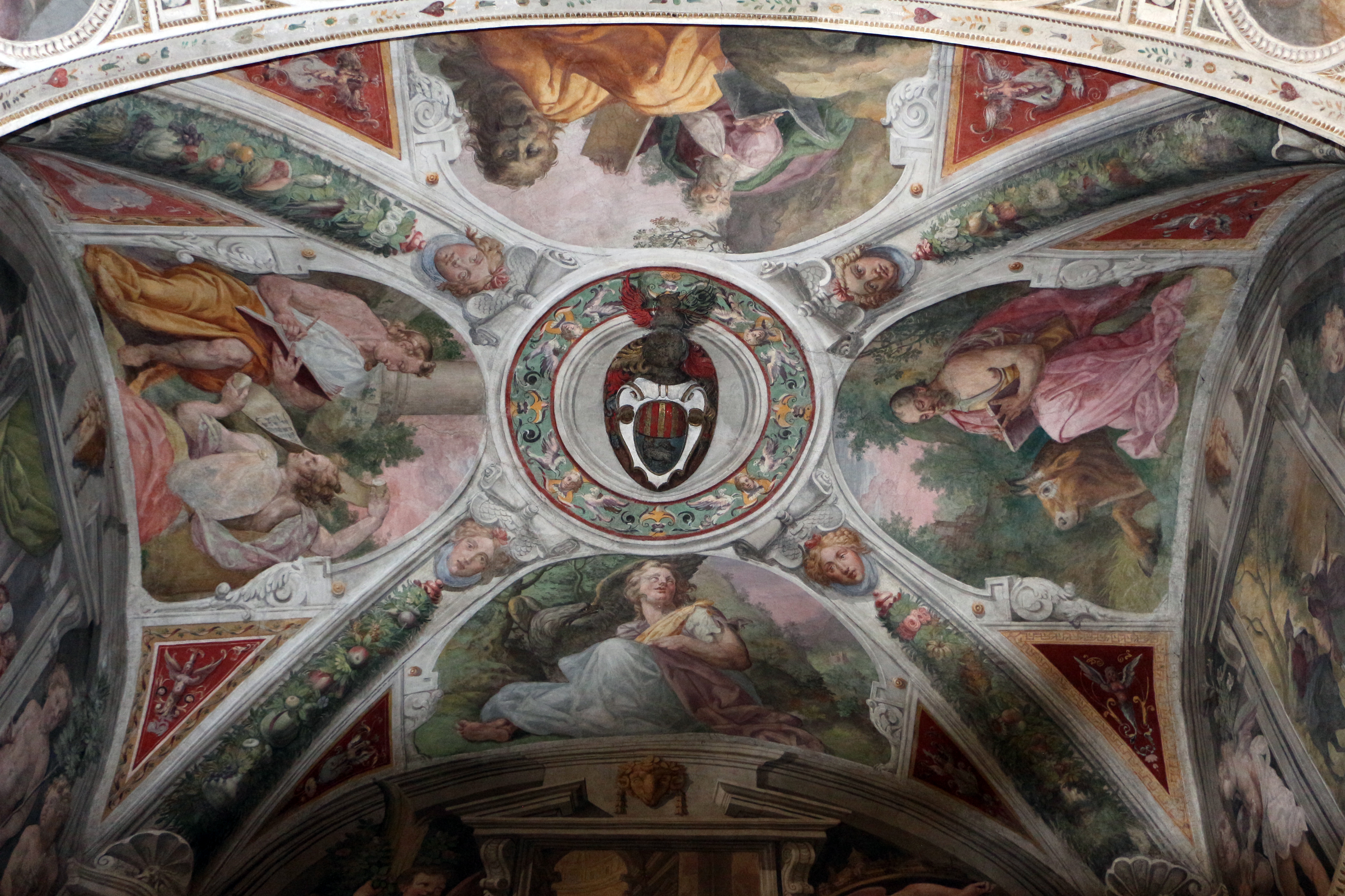 Trinità dei Monti (Rome) - Chapel of the Deposition